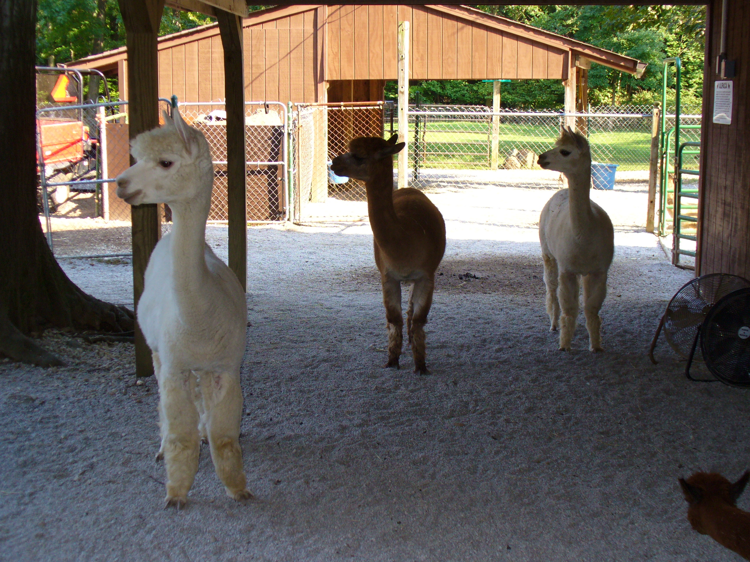 Alpacas in Rose Hill Farm, Chardon, Ohio, USA.